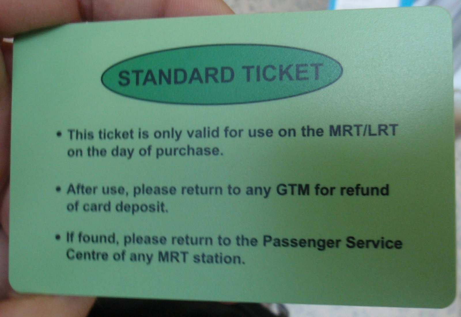 A refundable 'standard ticket' for Singapore's Mass Transit System.